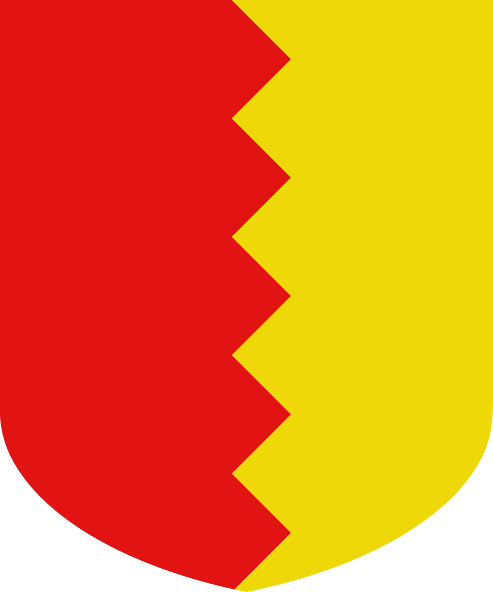 Avonal shield